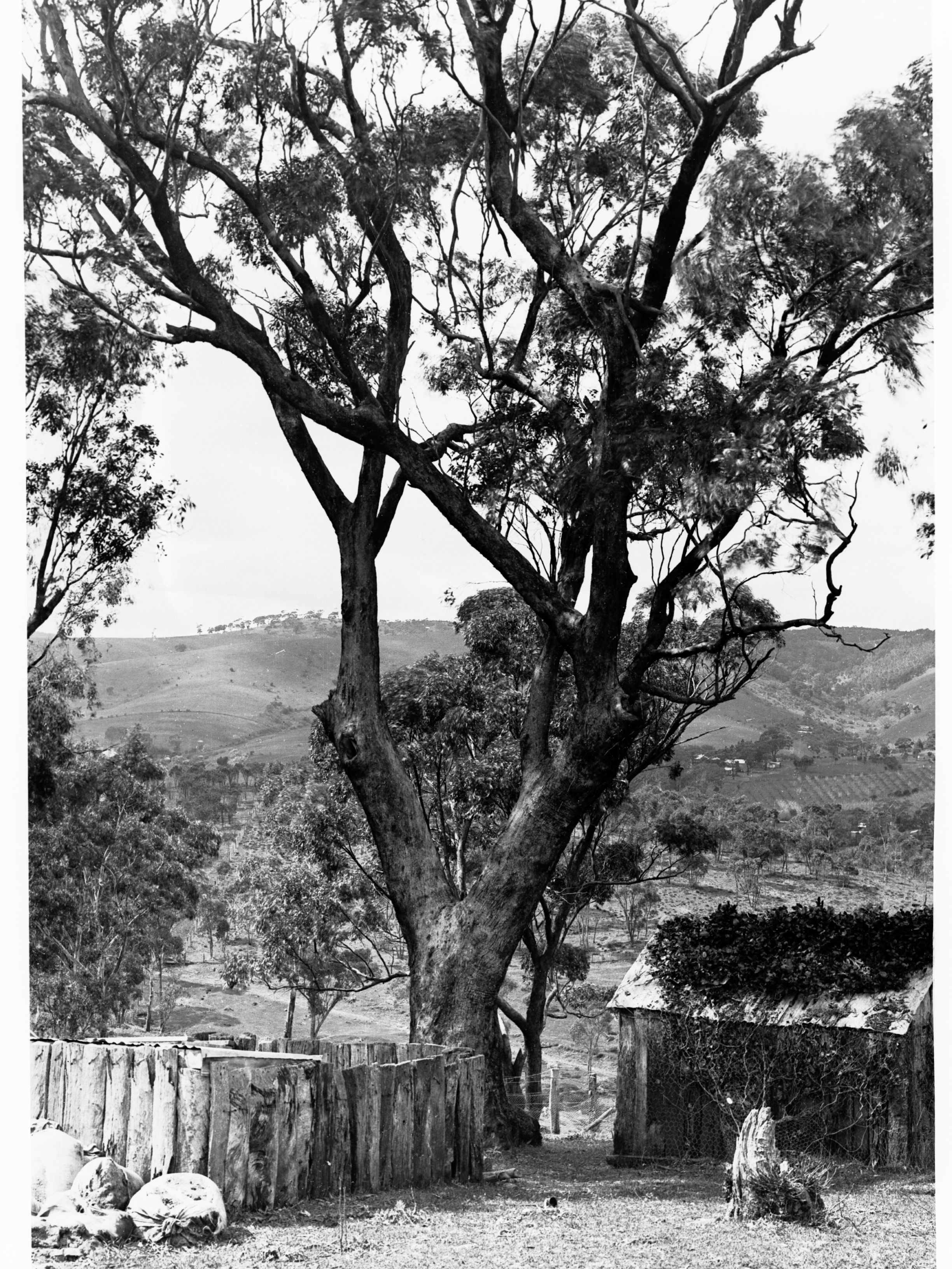 Same photograph as GN12264A